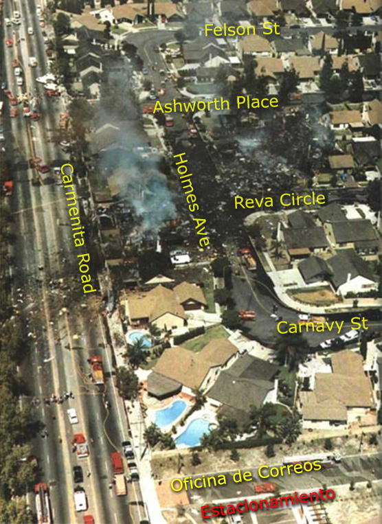 Annotated image of the crash site of Aeromexico Flight 498 (Spanish)